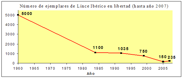 Graphic of the lynx population in Spain (for some years, we only know a possible interval of specimens, i've taken the middle. Look in [1] for more information)